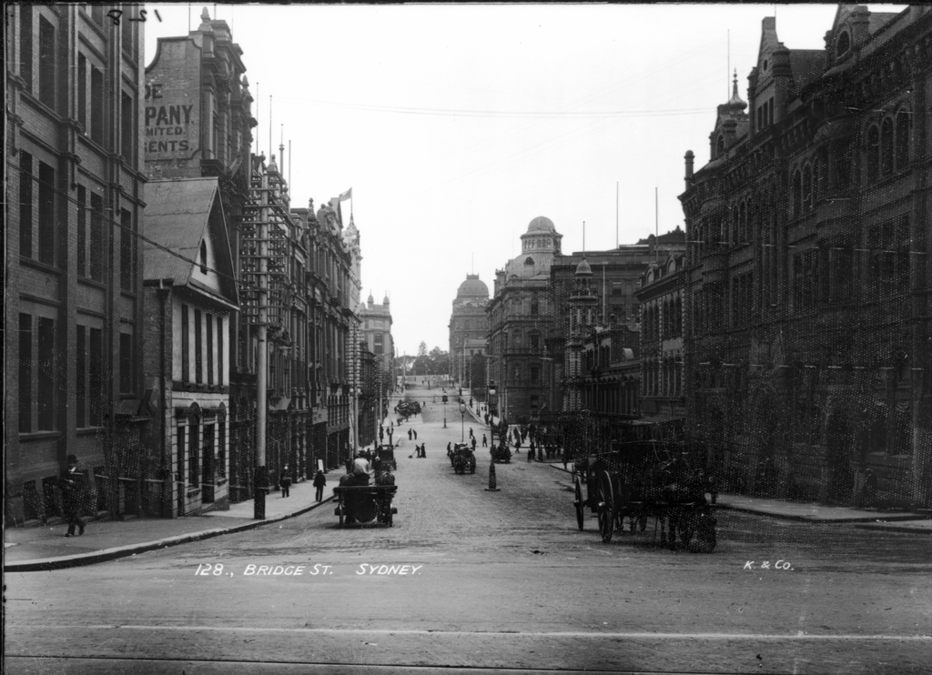 'Sydney City' Pictures from The Powerhouse Museum